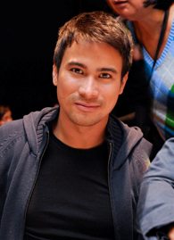 Sam Milby as photographed by Ronn Tan, April 2010.